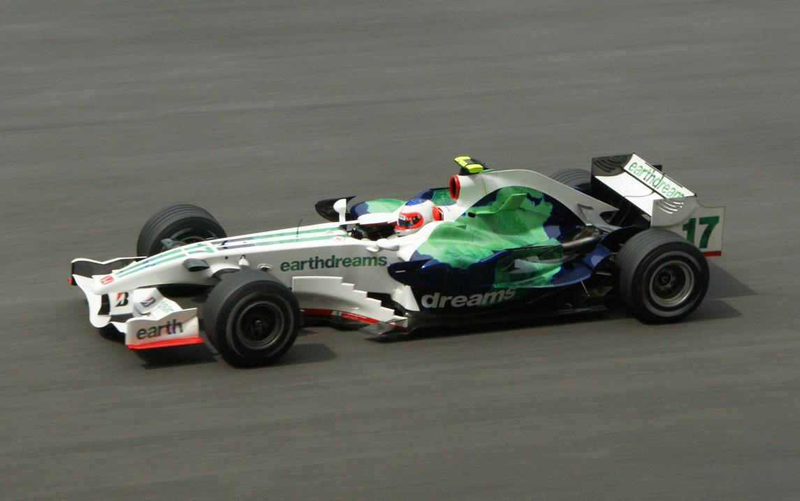 Rubens Barrichello driving for Honda F1 at the 2008 Malaysian Grand Prix.